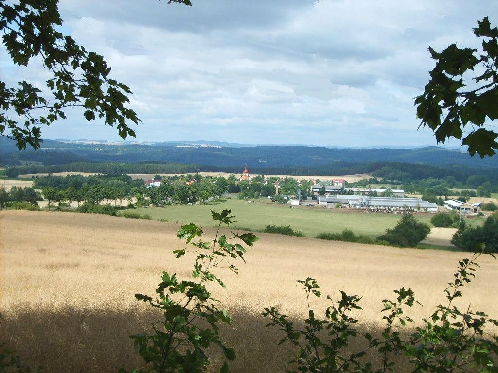 View to Klučenice from eastern.